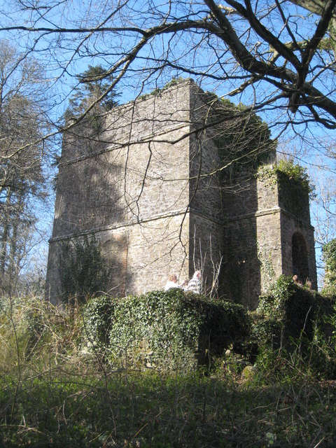 Mausoleum of Sir James Tillie of Pentillie Castle This Grade II* listed mausoleum sits on Mount Ararat high above the Tamar. More details here